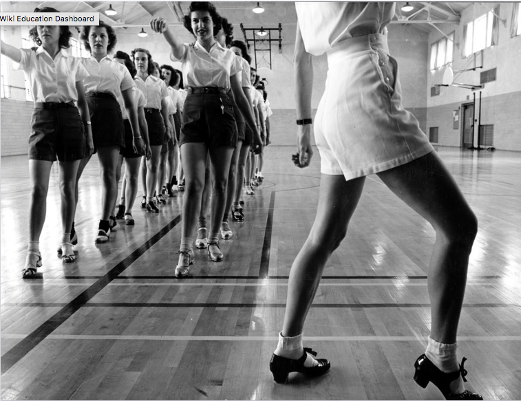 Photo looks to be from the early 1900s portraying women's dance class, possibly in a school Physical Education class